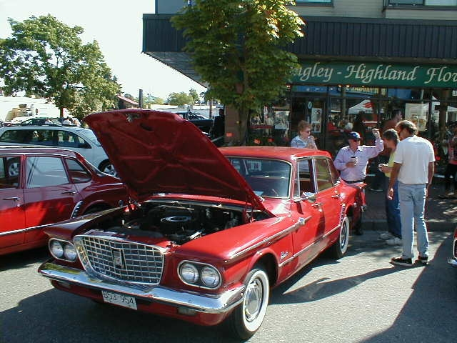 1961 Plymouth Valiant